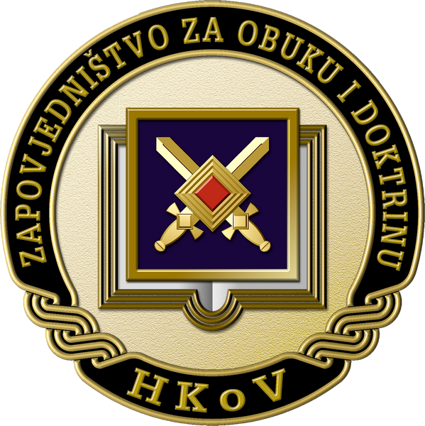 Seal of Croatian Armed Fores Headquarters of Training and Doctrine